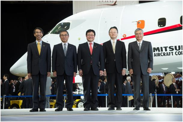 Representatives of various institutions supporting the Mitsubishi Regional Jet (including Shinichiro Ito of All Nippon Airways, Hideaki Omiya of Mitsubishi Heavy Industries and Akihiro Nishimura of the MLIT) posing for a group photo at the rollout ceremony of the first MRJ.